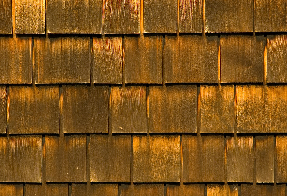 Wood shingles as used on a roof.